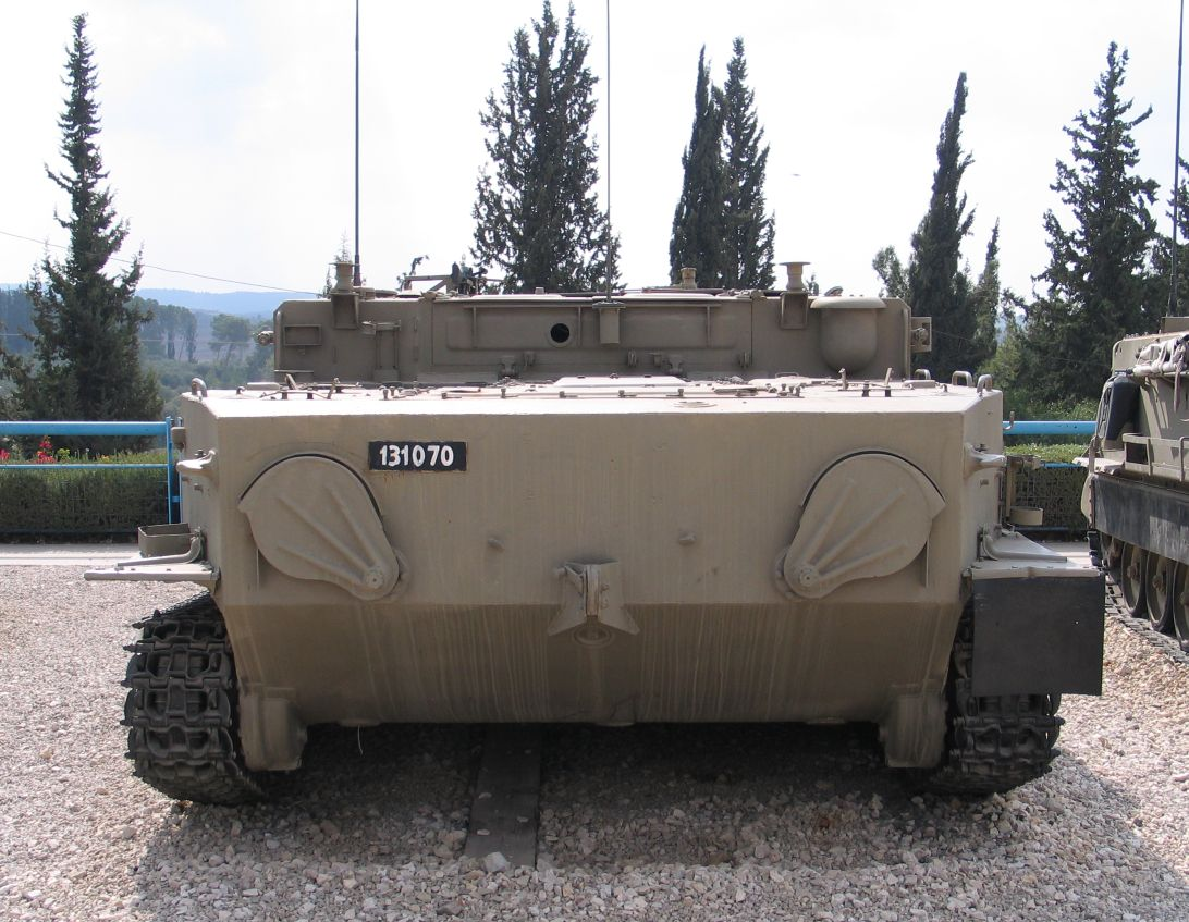 Description: BTR-50PK APC in Yad la-Shiryon Museum, Israel. 2005. Source: Photo by me, User:Bukvoed